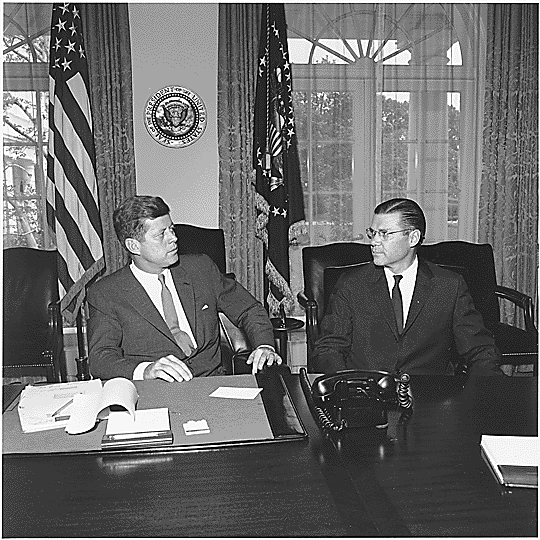 President John F. Kennedy meets with Secretary of Defense Robert McNamara in the Cabinet Room, 06/19/1962